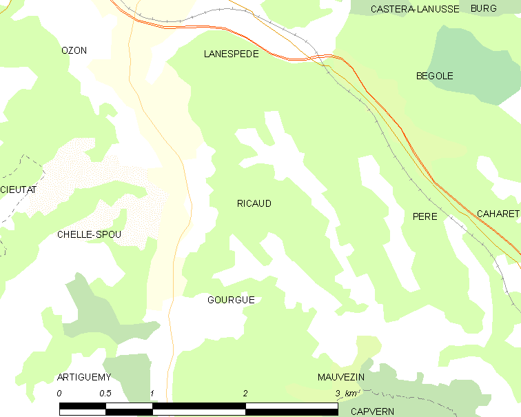 Map of French municipality